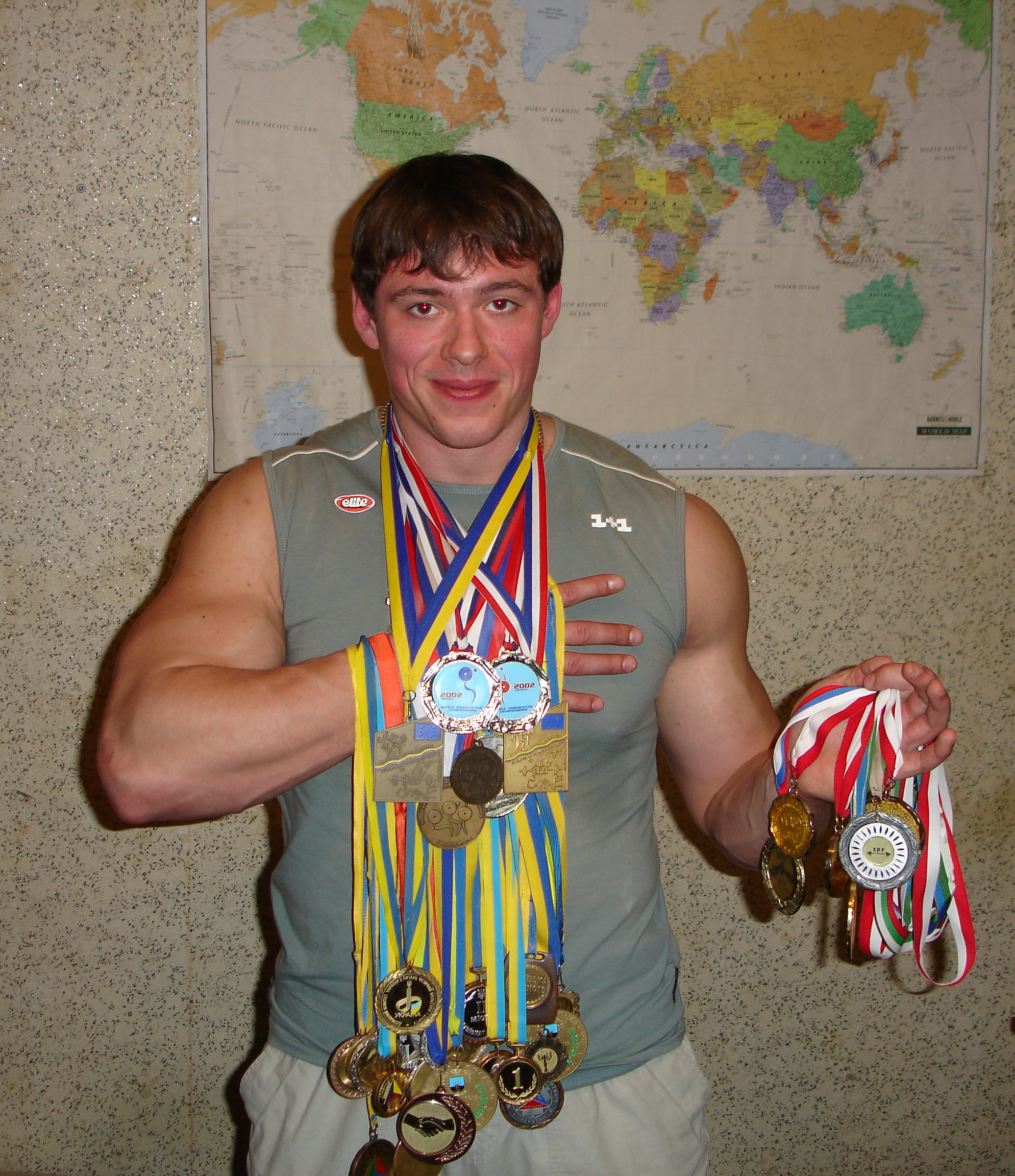 Alexey Vysnitsky